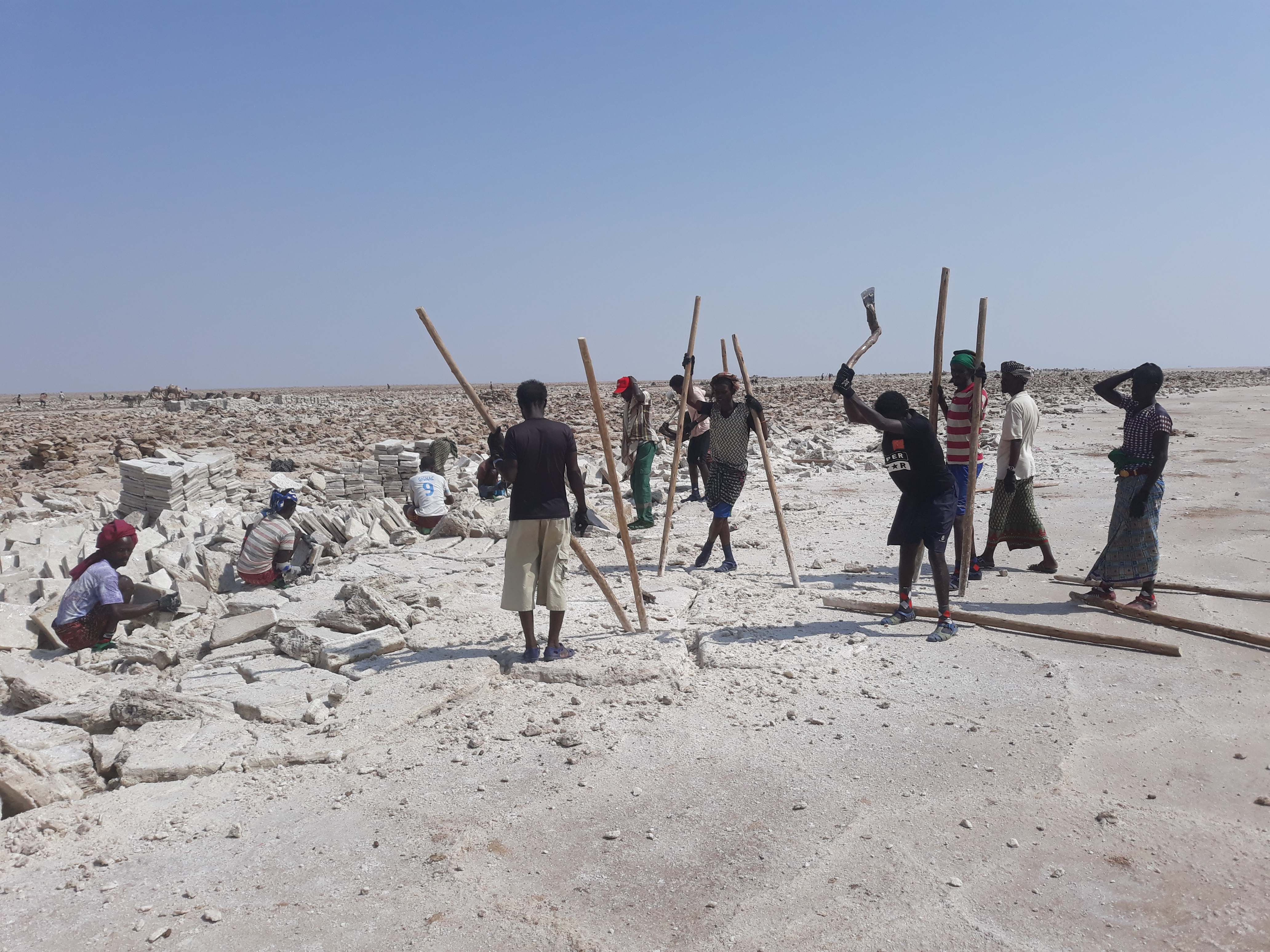 Afar salt miners of Ethiopia, Lake Asebo This is an image of "African people at work" from Ethiopia